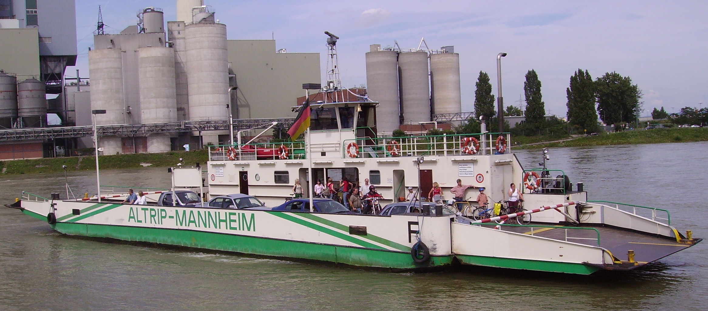 view of Altrip, Germany